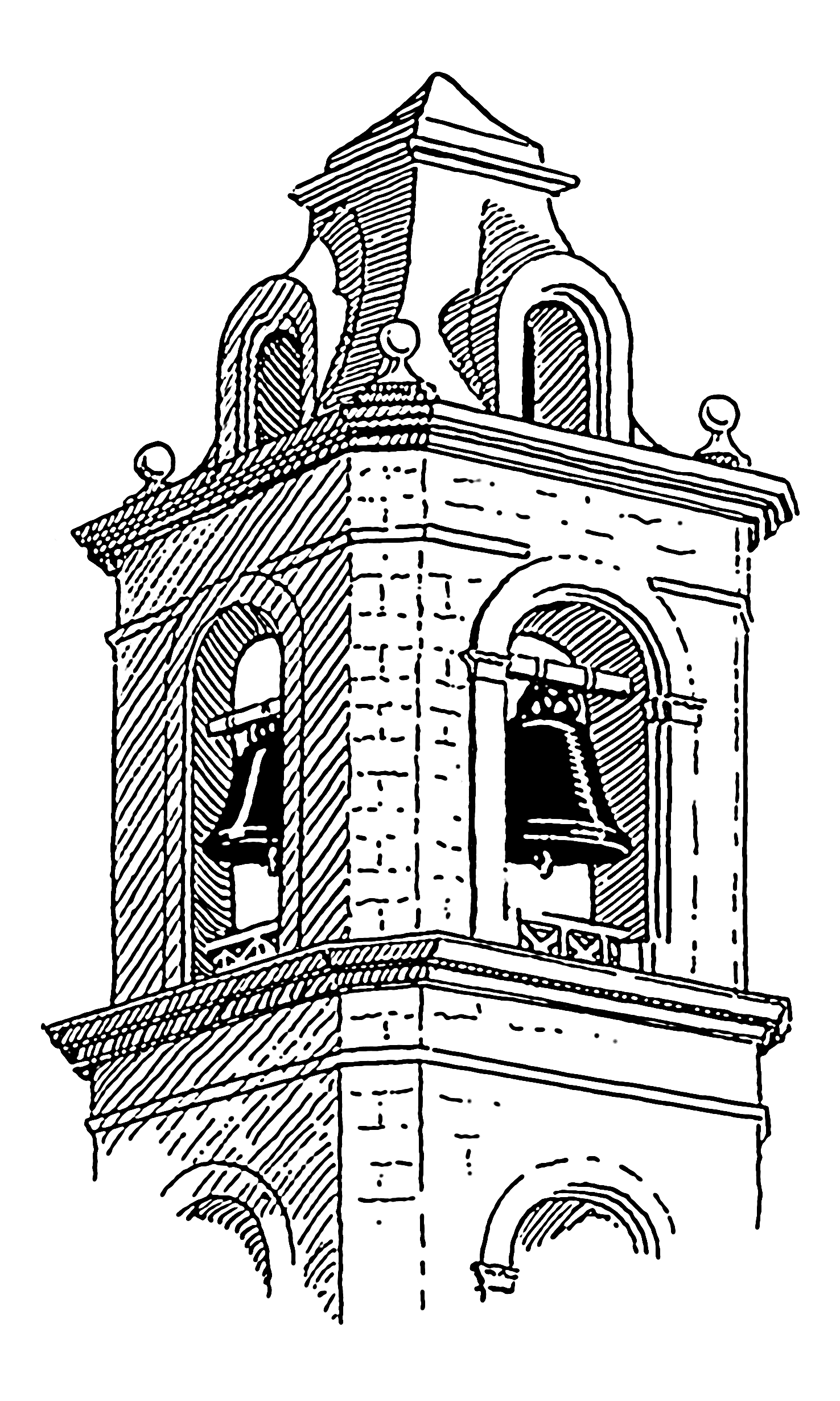 Line art drawing of a belfry.